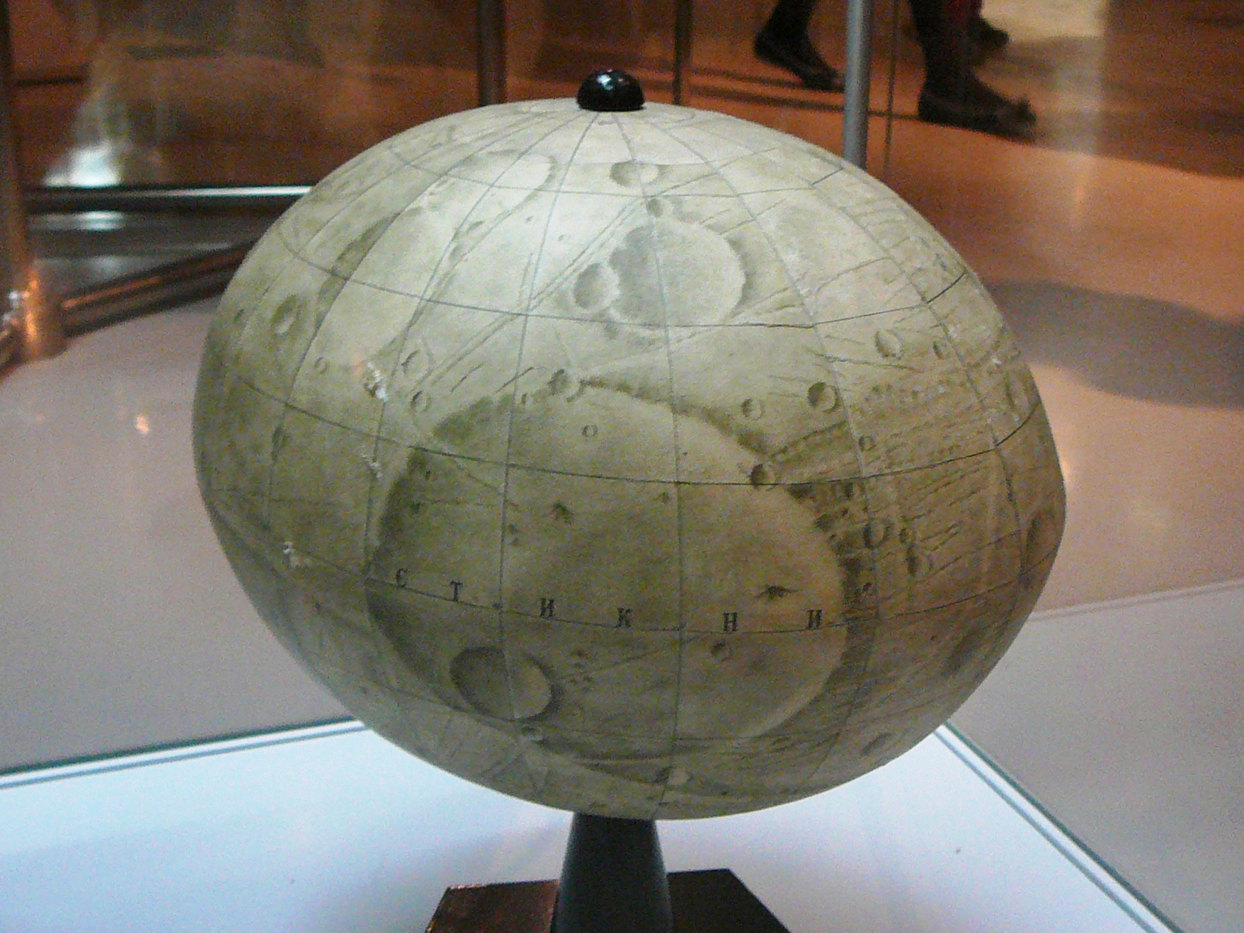 The Martian satellite Phobos globe in the Memorial Museum of Astronautics in Moscow